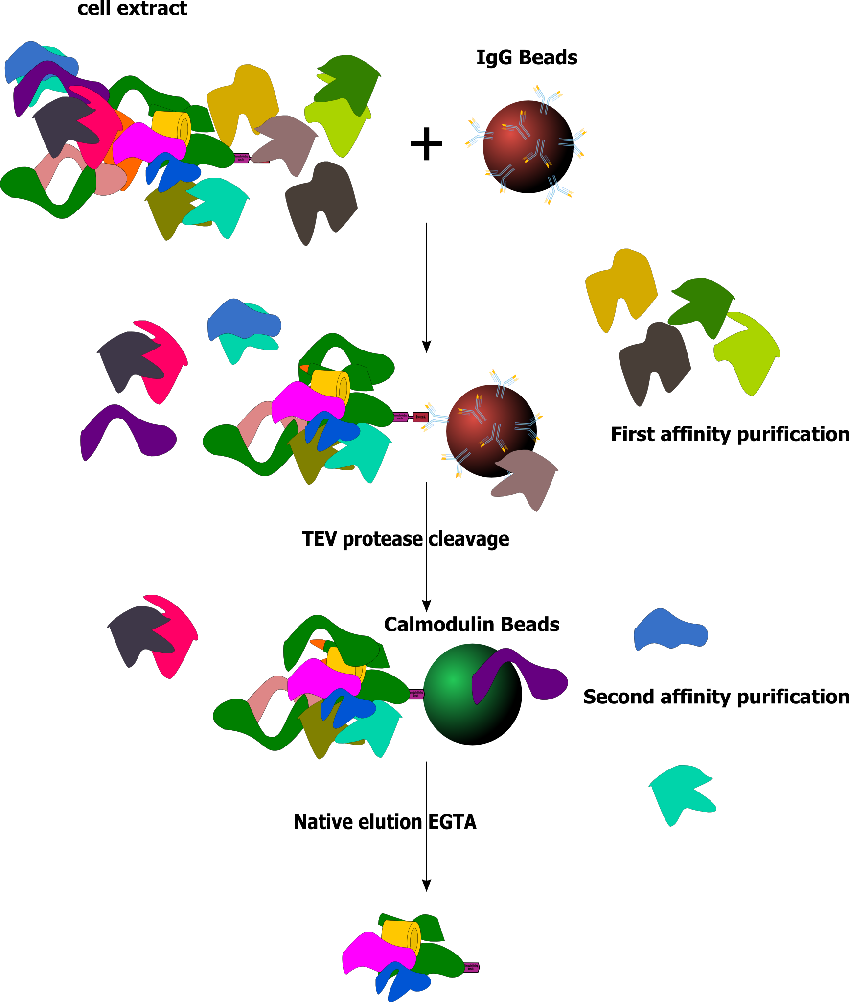 Purification of protein complexes by the Tandem Affinity Purification method